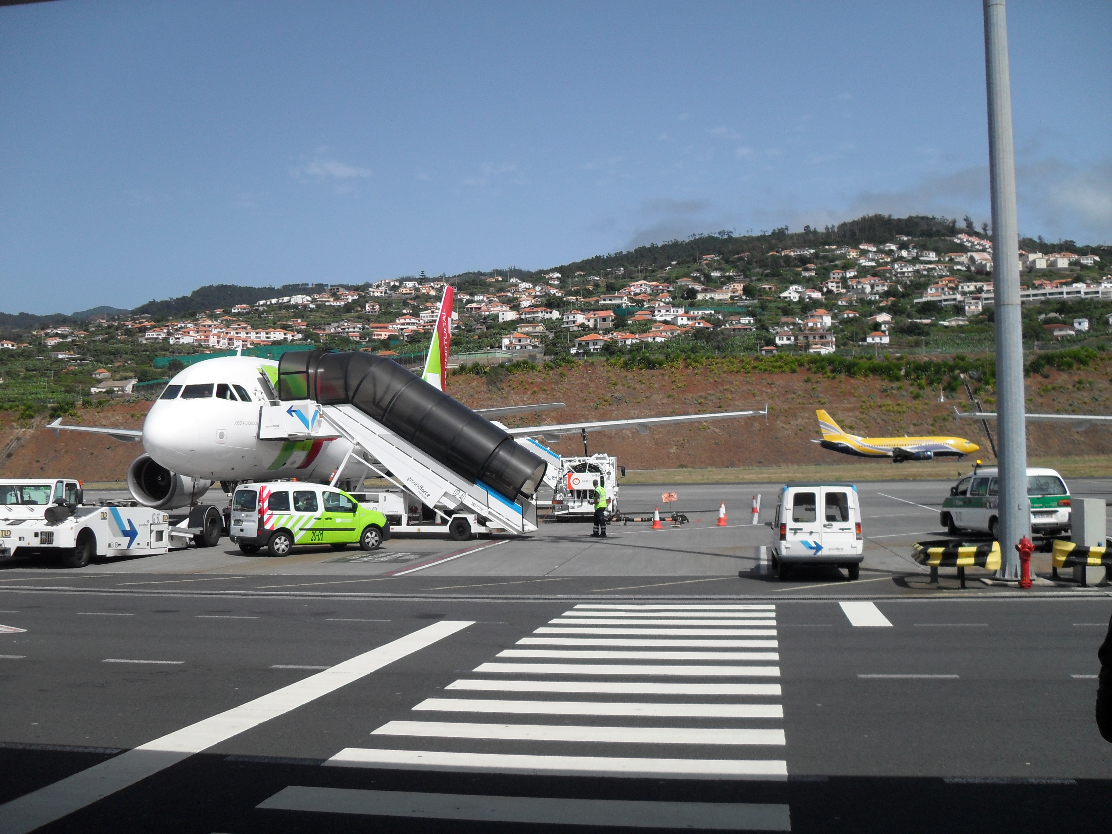 A TAP Portugal A319 sits on the tarmac in Funchal Airport in Madeira while a Europe Airpost 737 lands.